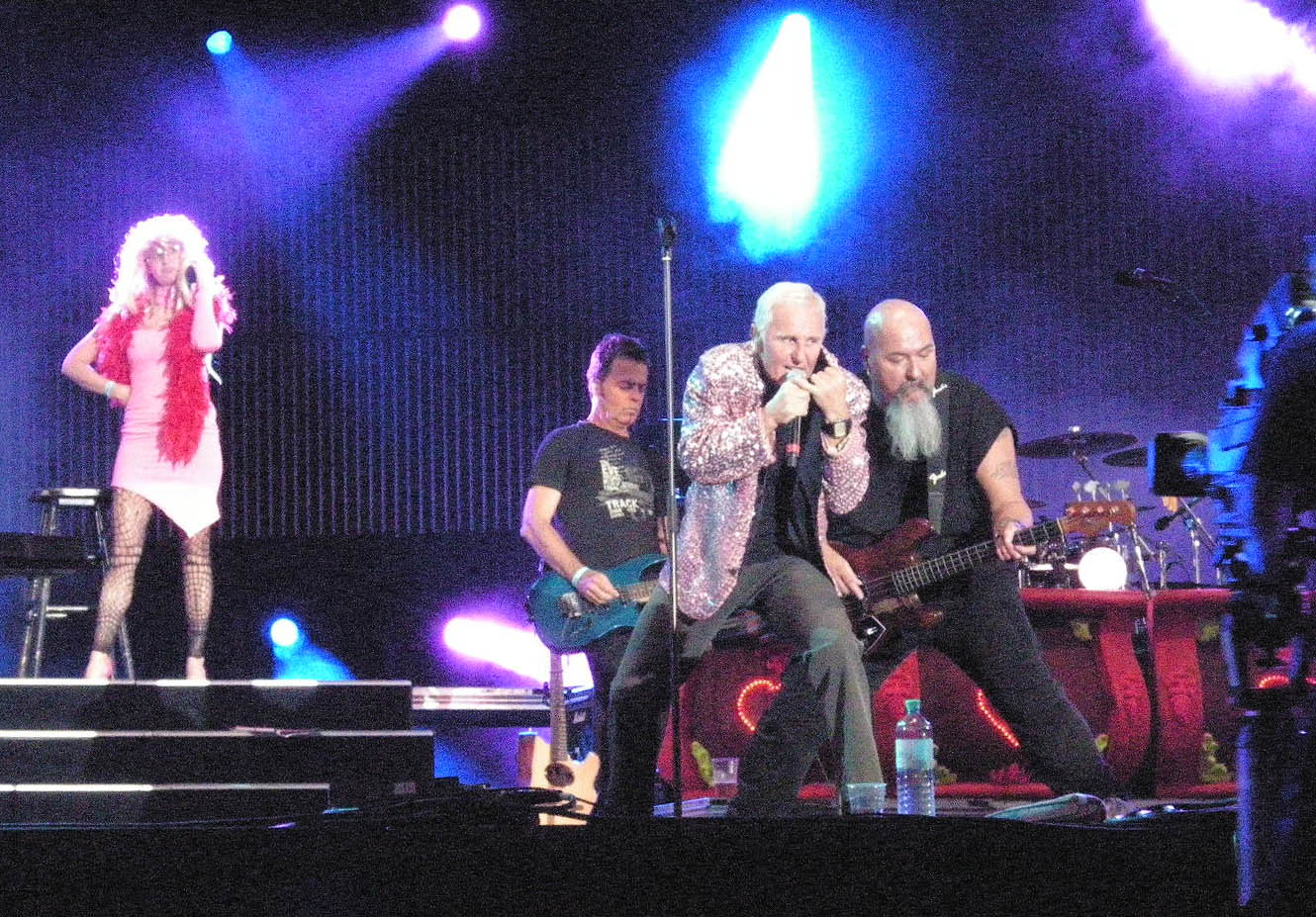 Erste Allgemeine Verunsicherung in Vienna, Austria, Donauinselfest 2008.